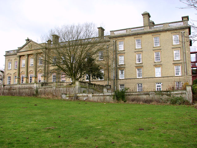 Riddlesworth Hall School Riddlesworth Hall Prep School is an IAPS school catering for day girls and boys aged from 2 to 13. Lady Diana Spencer was educated at Riddlesworth Hall School. Only girls can board, with all boys being day pupils. Presently the school has 34 boys and 99 girls. An increasing number of overseas students have attended the school during the past few years studying at the school's Diana Princess of Wales International Study Centre which strives to achieve the highest standards of English Education for overseas students. The school also offers places to children with learning difficulties. The village of Riddlesworth is mentioned in Alan Davison's book 'Deserted Villages in Norfolk' as having been a small and moderately prosperous place in the 1340s. By 1584 it was tiny, consisting of manor house, church, rectory and 10 houses, and in the 1670s its size had dwindled to two houses and 15 people. Whether as a result of depopulation by the Drurys, the Lords of the Manor, is not known. The modern-day hamlet consists of Manor Farm, a handful of cottages and St Peter's church. The Hall, and attractive Georgian-style house surrounded by 30 acres of parkland, now functions as a school.